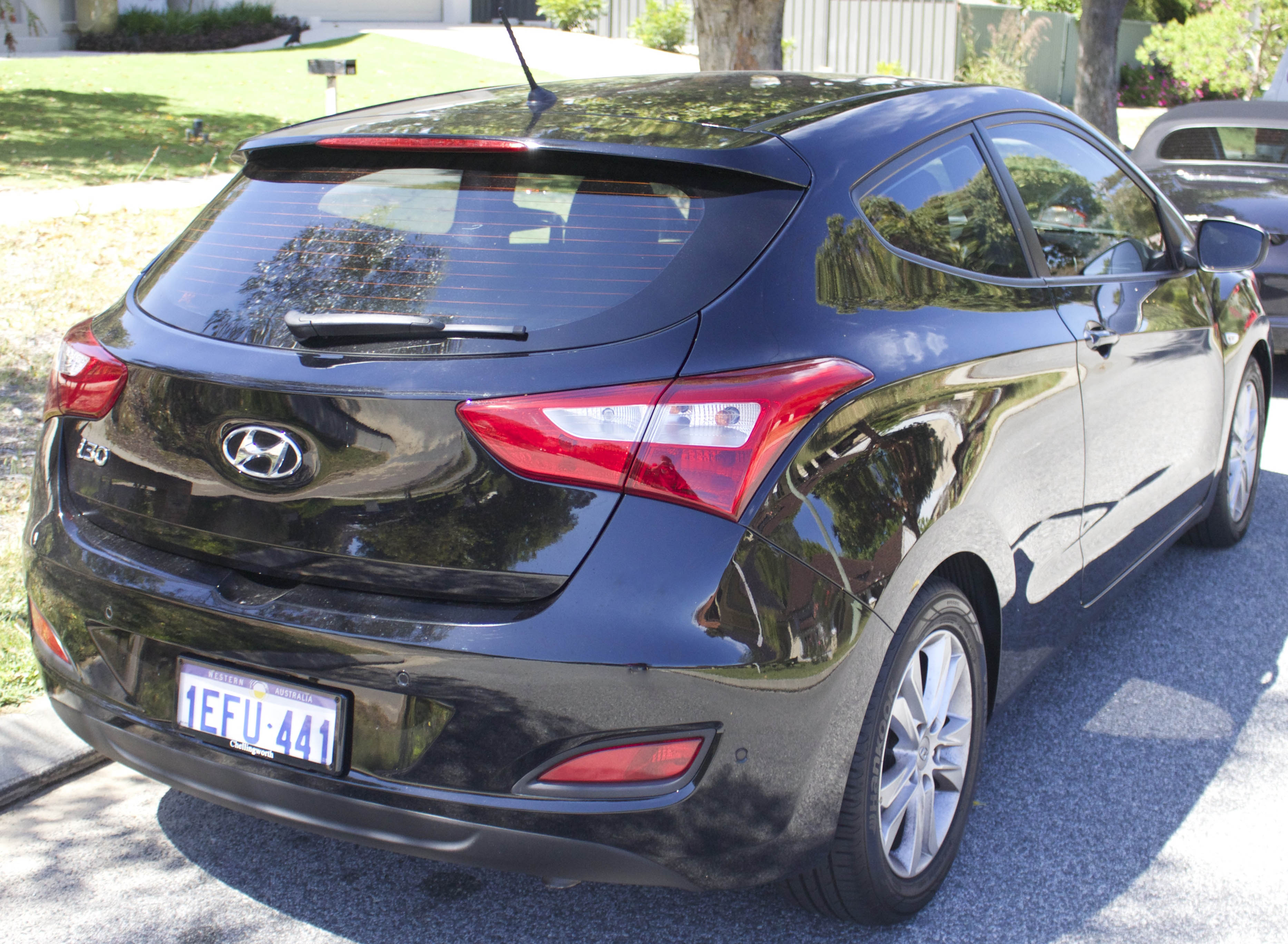 2013 Hyundai i30 (GD) SE 3-door hatchback. Photographed in Nedlands, Western Australia Australia